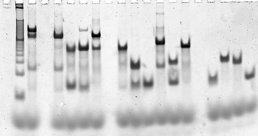 Formation gel of a DAO double-crossover (DX) DNA molecule used in DNA nanotechnology. This is a polyacrylamide gel run under native conditions. The molecule has four strands, here labeled 1 through 4, and each lane contains a different combination of the strands. The lanes, from left to right, are: 10 base pair ladder, 1+2+3+4 (full DX), empty, 1+2+3, 1+2+4, 1+3+4, 2+3+4, empty, 1+2, 1+3, 1+4, 3+4, 2+4, 2+3, empty, 1, 2, 3, 4.